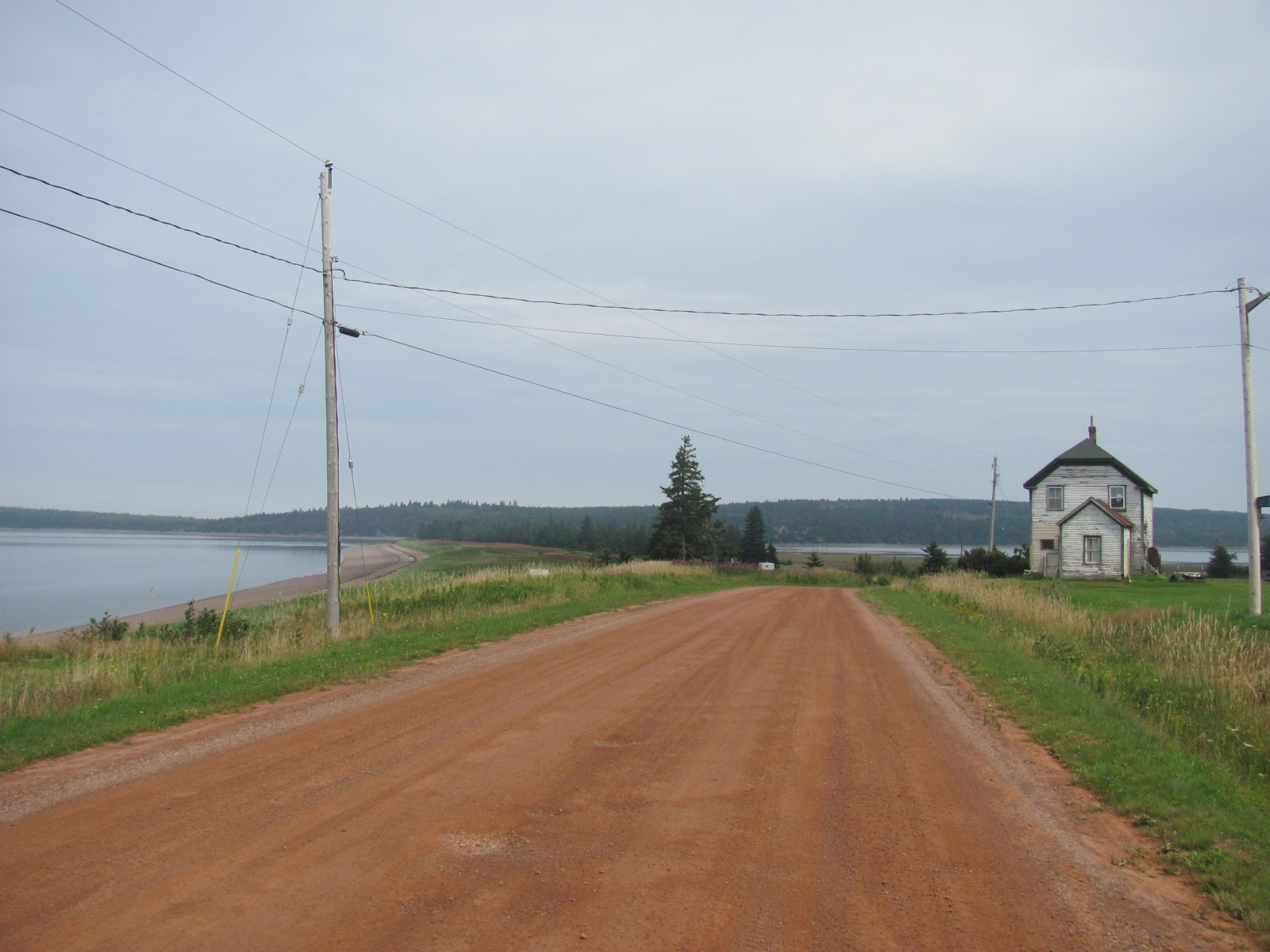 West Apple River, Nova Scotia looking towards the bar at the Apple River harbour entrance.